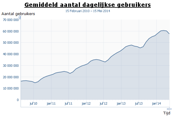 Gemiddeld aantal dagelijkse gebruikers